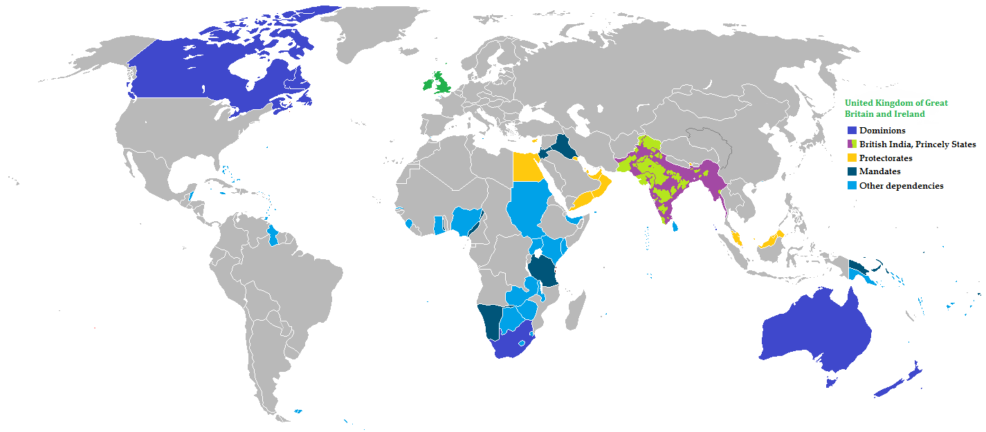 A map of all the official territorial claims of the British Empire that it held in 1920 which identifies what type of holding was present on all possessions during that year.